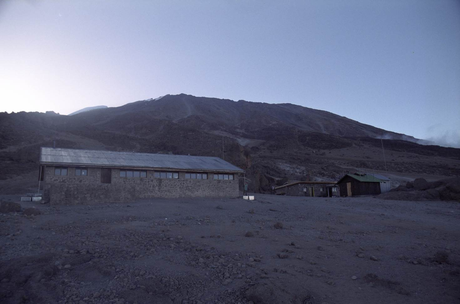 Mountain "Kilimanjaro", Kibo Hut)